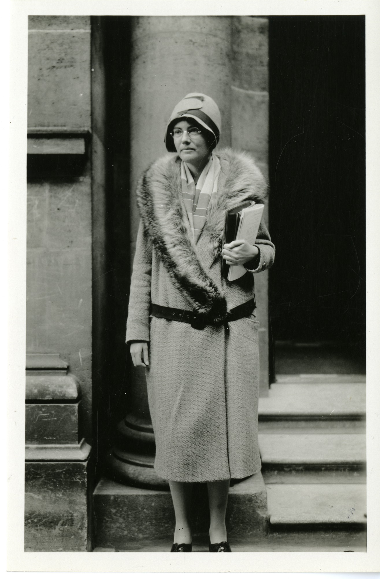 Constance Endicott Hartt (1900-1984), known for her research on sugarcane, had taught biology at St. Lawrence University and Connecticut College for Women before moving to Hawaii, where she became a botanist on the staff of the Hawaiian Sugar Planters Association.